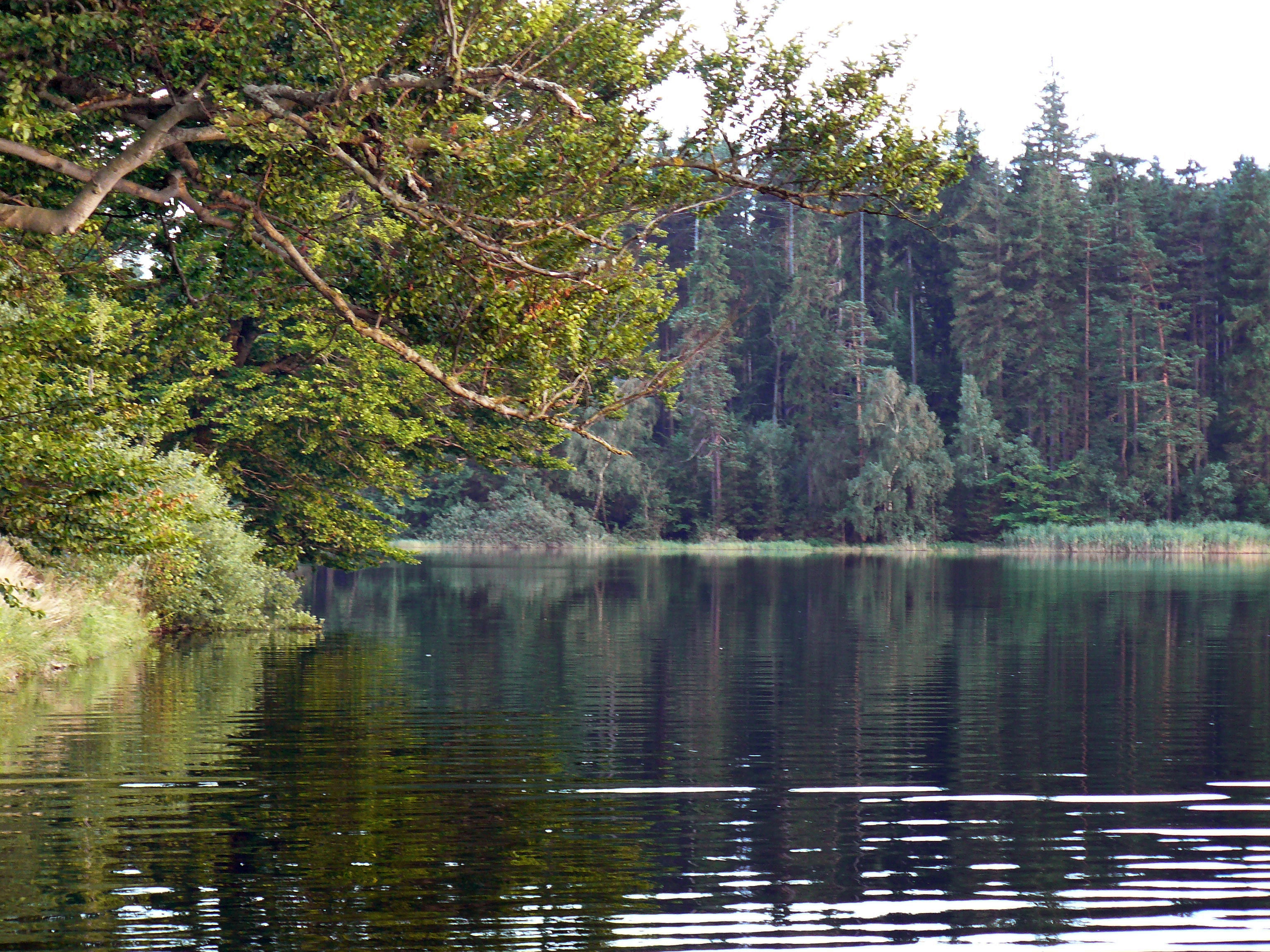 Nature reserve Velký Pařezitý rybník, Jihlava District, Czech Republic.